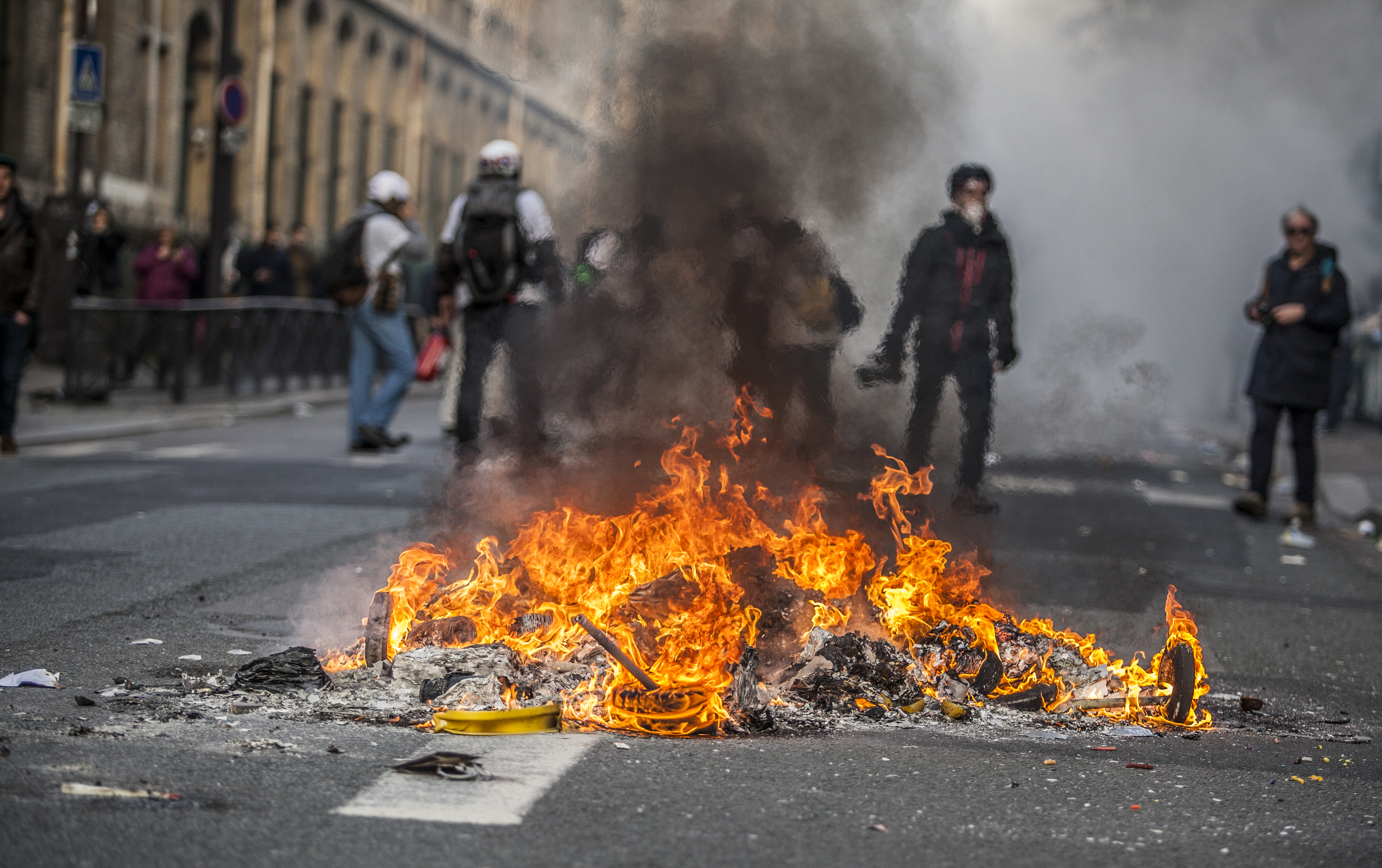 Thousands of yellow vests (Gilets Jaunes) protests in Paris calling for lower fuel taxes, reintroduction of the solidarity tax on wealth, a minimum wage increase, and Emmanuel Macron's resignation as President of France, 09 February 2019.